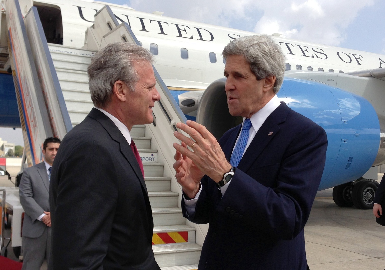 U.S. Secretary of State John Kerry bids farewell to Israeli Ambassador to the United States Michael Oren at Ben Gurion International Airport in Tel Aviv, Israel, on April 9, 2013. [State Department photo/ Public Domain]